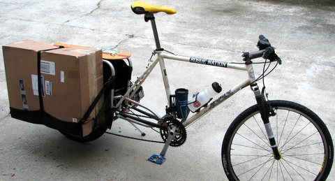 photographer Phillip Barron